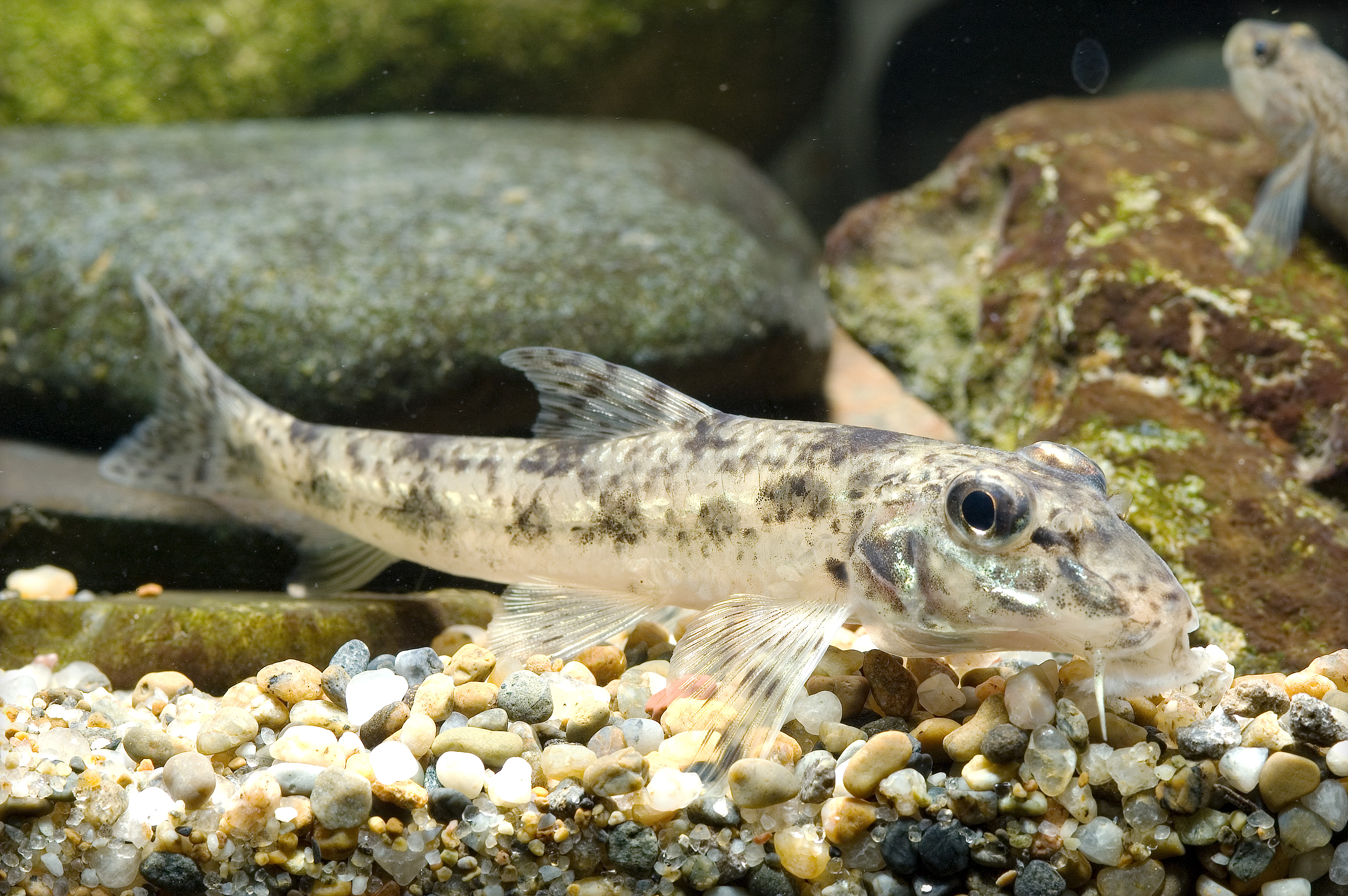 Kamatsuka, Pseudogobio esocinus, from Hamamatsu, Shizuoka, Japan.